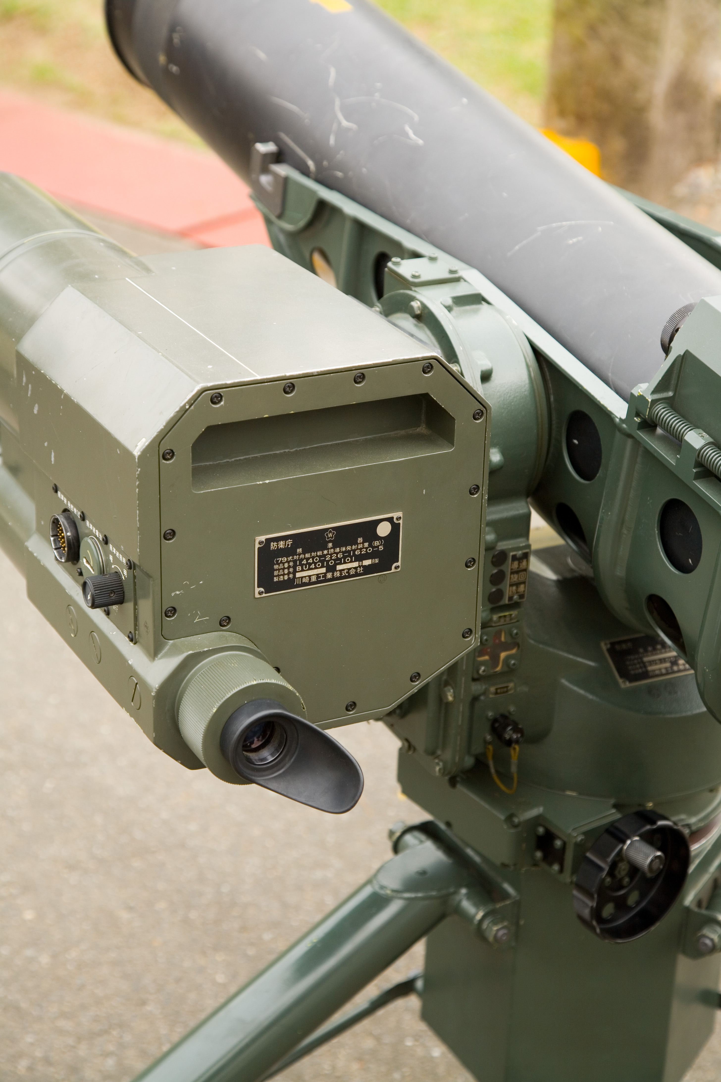 A Japanese Type 79 Anti-Tank Missile, taken at an Tsuchira army base open day.